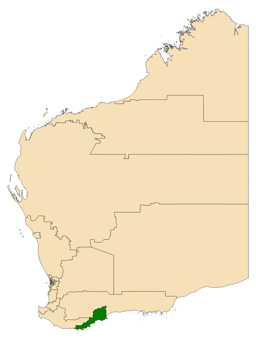 Location of the electoral district of Albany in Western Australia as of the 2017 WA state election.